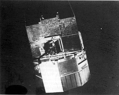 This is an accurate picture of OSO 7, NSSDC ID: 1971-083A.